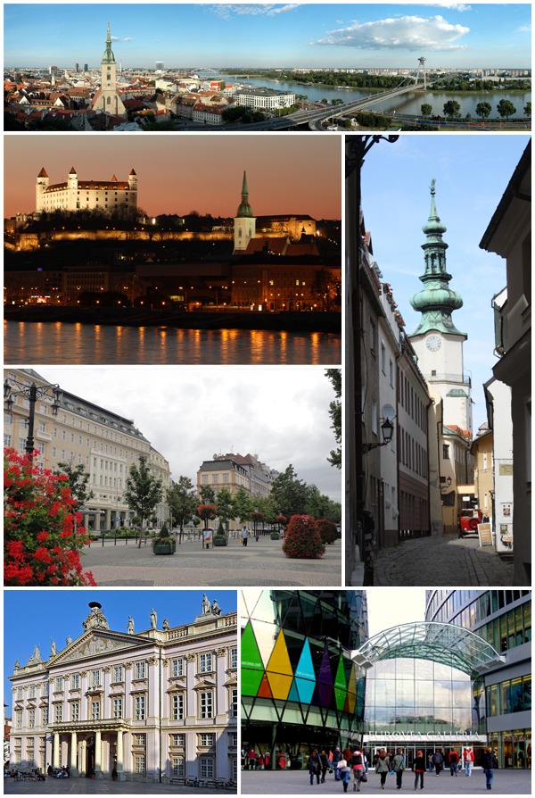 Up: Panorama of Bratislava from the Castle - Left 1: Bratislava Castle and the Danube riverbank - Left 2: Hviezdoslav square in the old town - Right: Image of the Michalská brána (St. Michael's Gate) in Bratislava - Left down: Primate's Palace - Right down: Entrance to the Eurovea complex